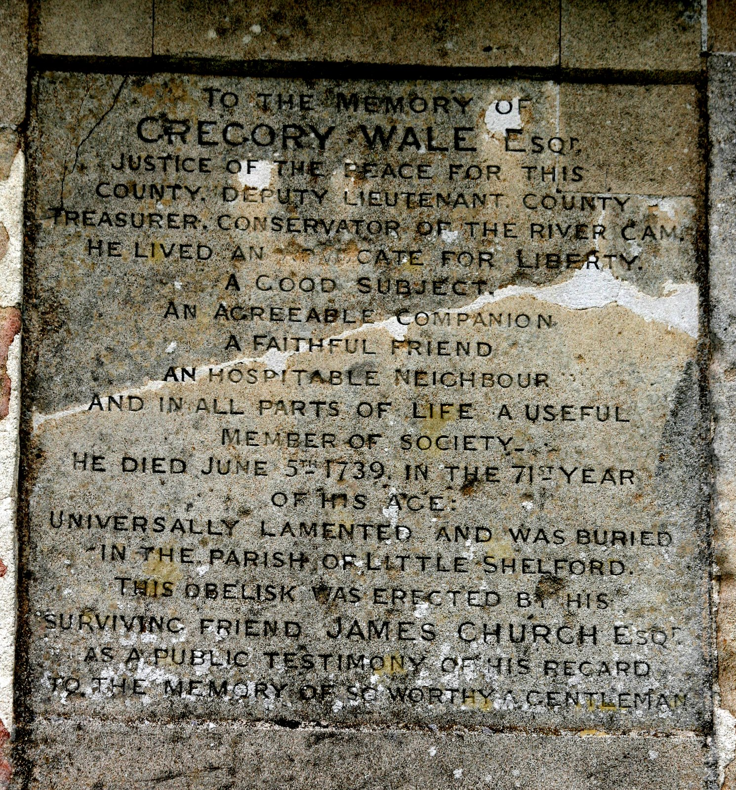 Inscription of the Gregory Wale (1668–June 5, 1739) obelisk at 52.1362° N 0.1056° E